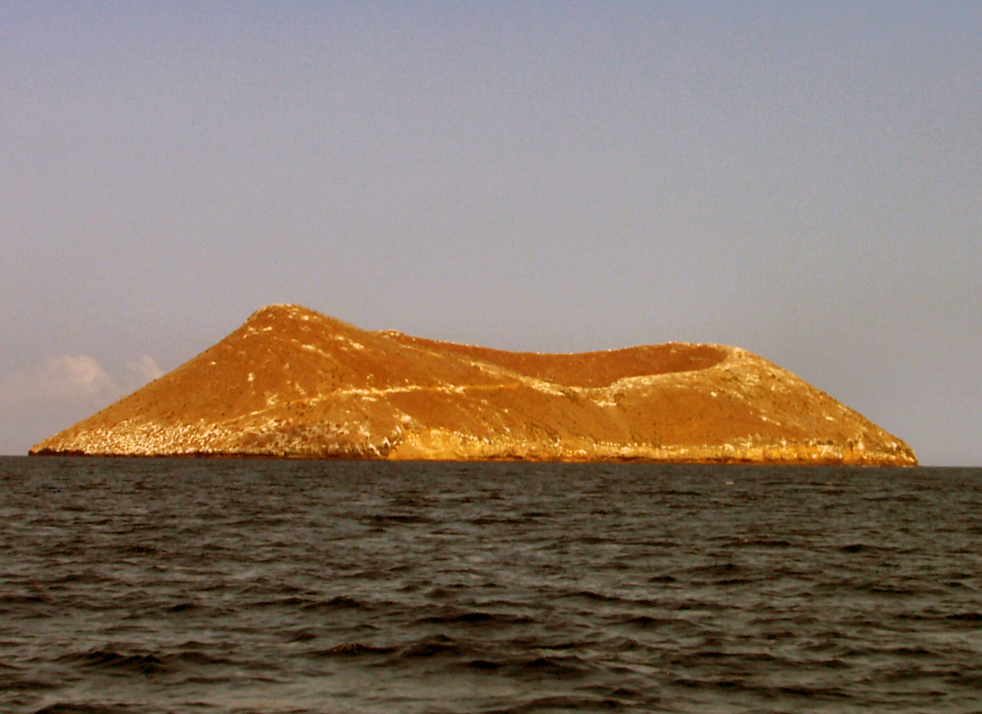 View of Daphne Major in the Galapagos Islands